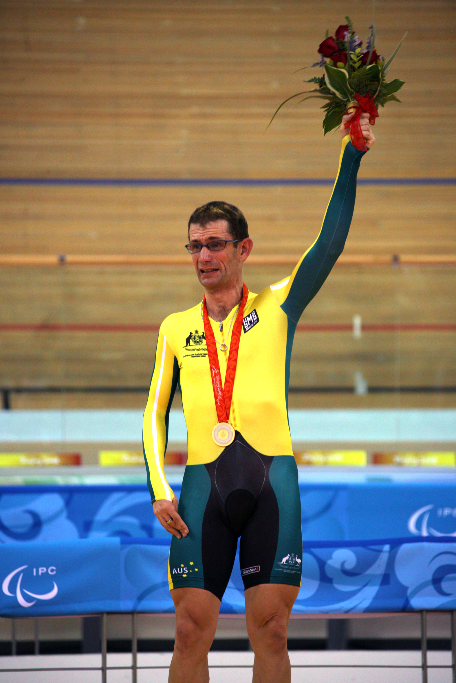 Australian Para-cyclist Chris Scott on the gold medal podium for the CP4 Individual Pursuit at the Beijing 2008 Paralympic Games